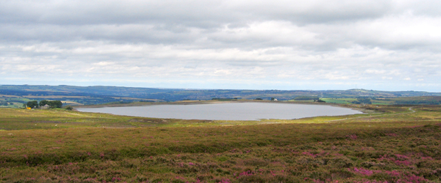 Smiddy Shaw Reservoir. On horizon near right Pontop Pike TV mast can be seen.